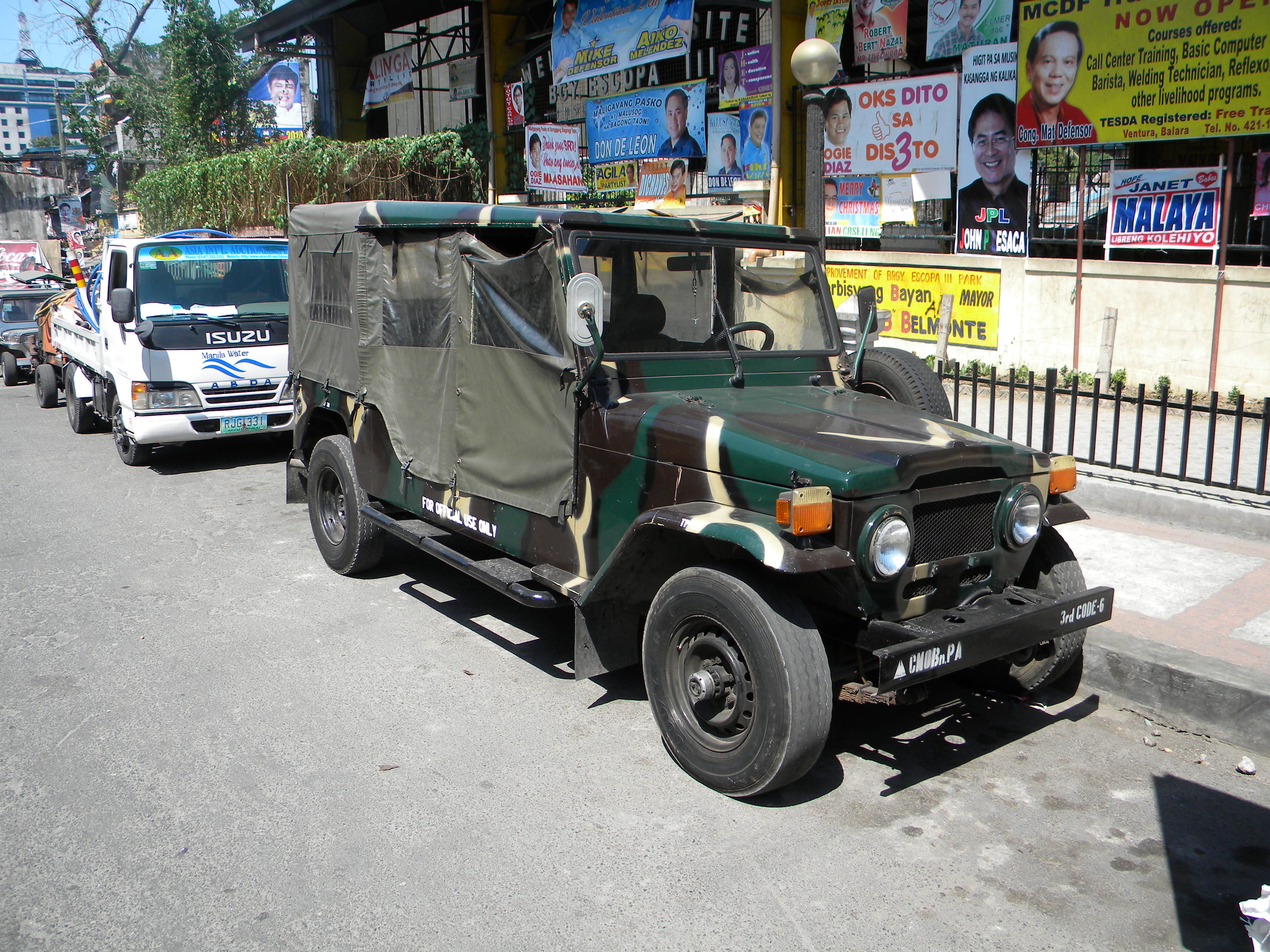 Delta Mini Cruiser offroad utility vehicle of the Philippine Army. Picture taken somewhere in Metro Manila on Saturday, 27th February 2010.